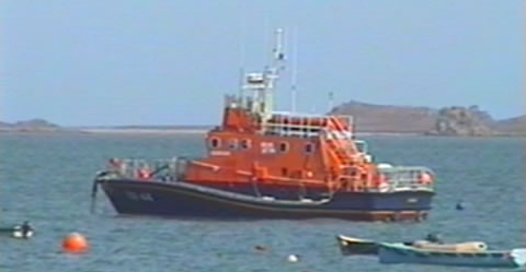 A lifeboat of the RNLI relief fleet.